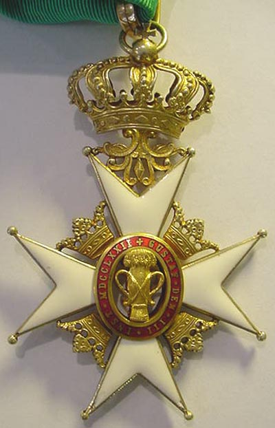 Order of Vasa